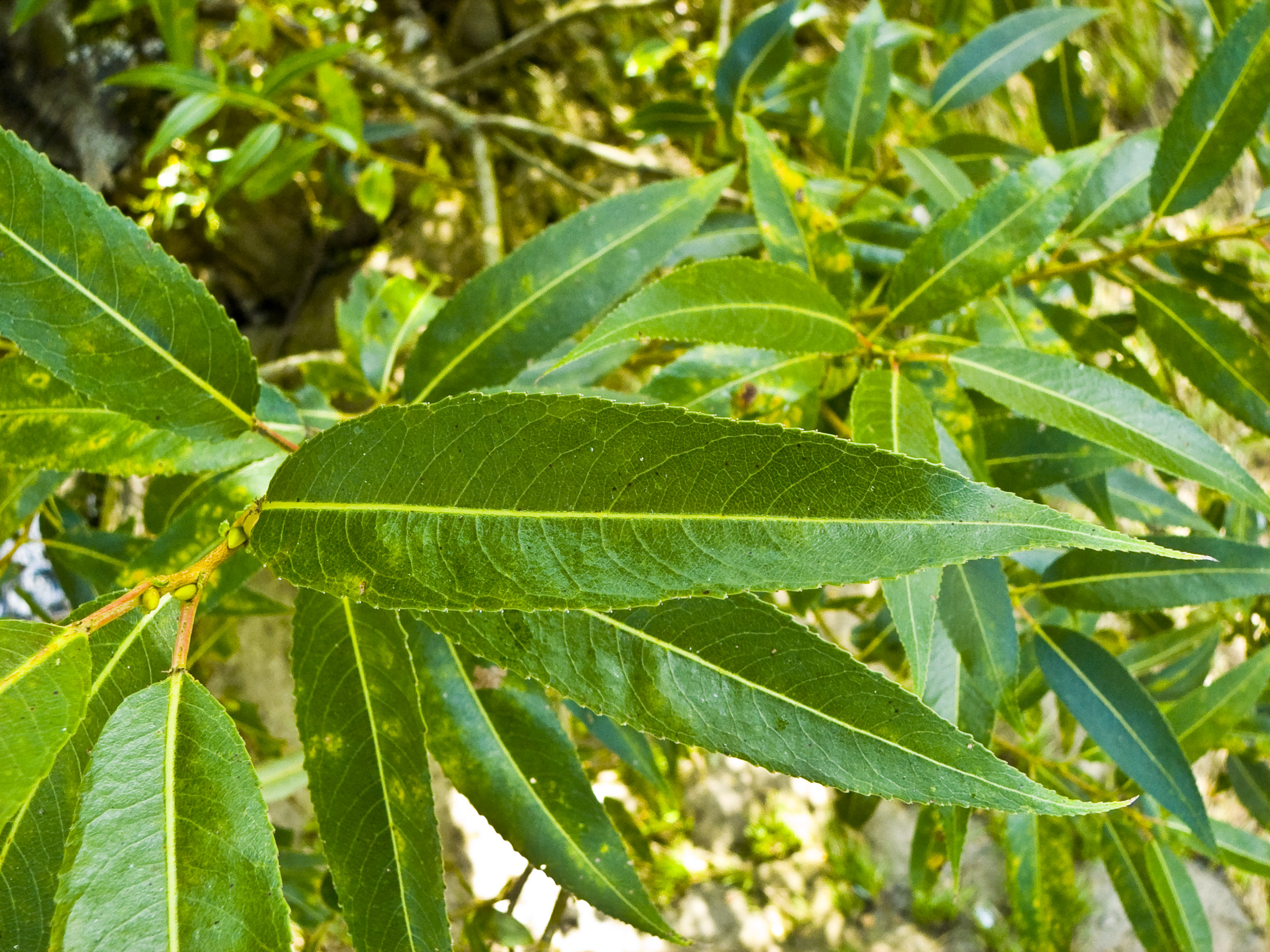 Crack-Willow (Salix fragilis), Location: Marburg, Hesse, Germany